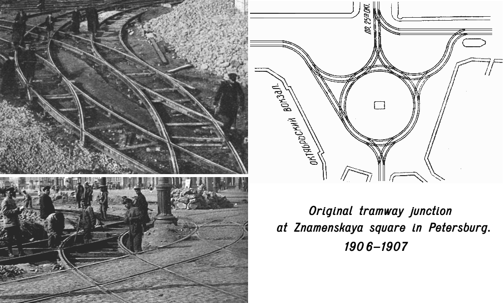 The unique tramway junction with multiple double curved track switches, built in Petersburg, Russia in 1906-1907